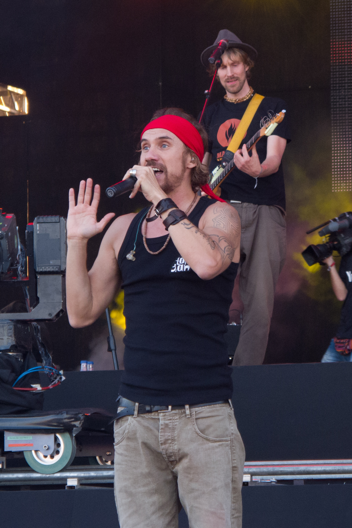 Macaco performing at Rock in Rio Madrid 2012.